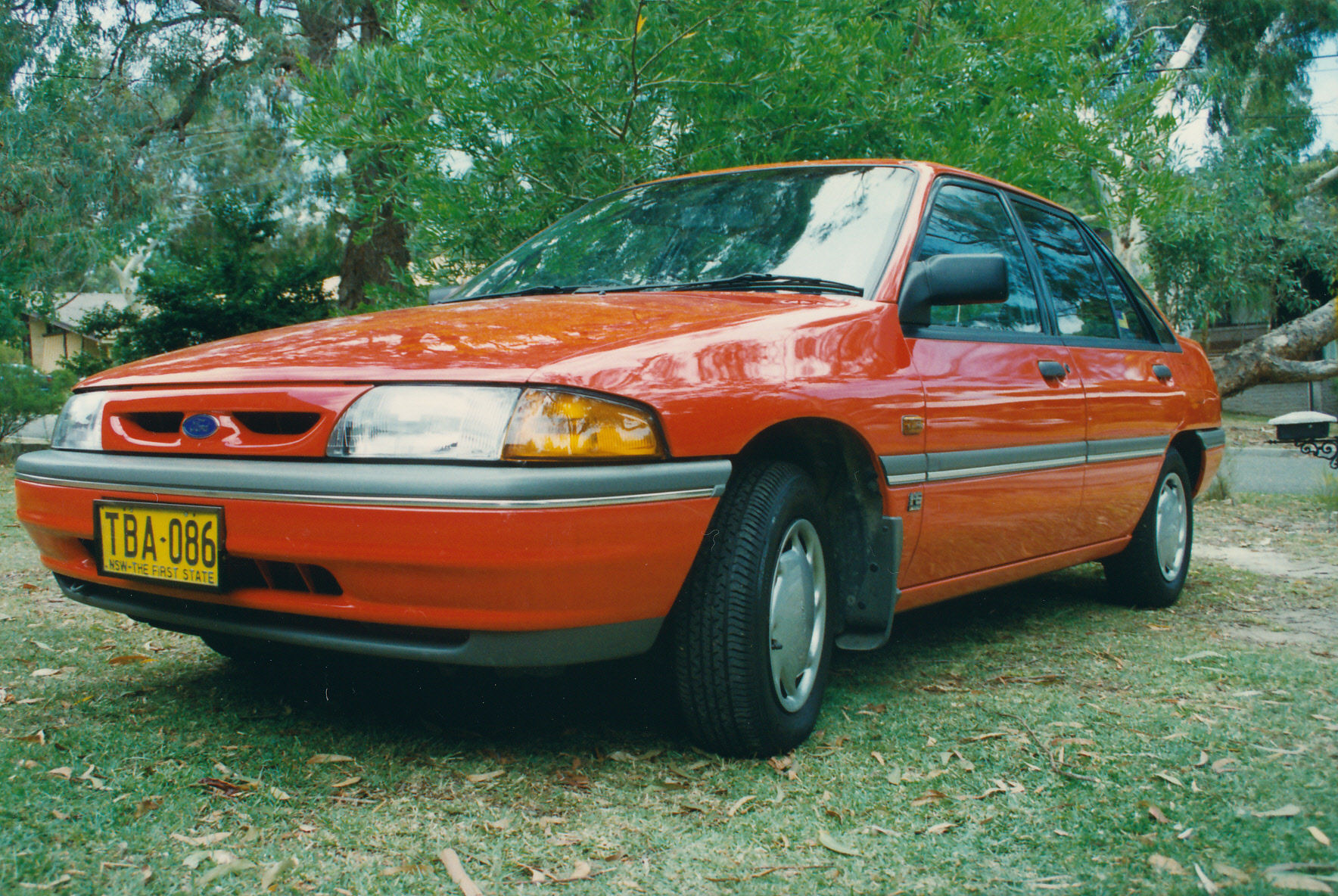 This image is a scan of a 35 mm print taken in 1996